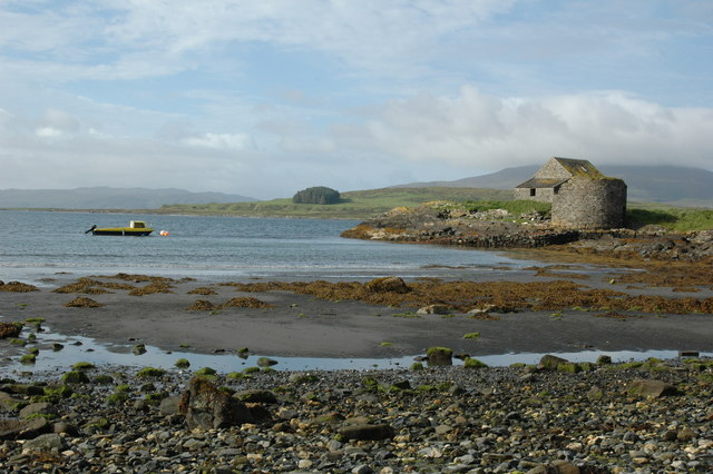 Ruins south of Shuna Cottage (South House), Shuna, Slate Islands